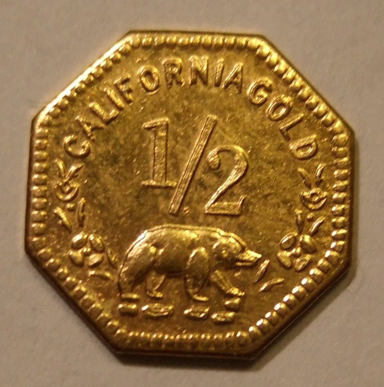 This tiny gold coin is about half the diameter of a dime.